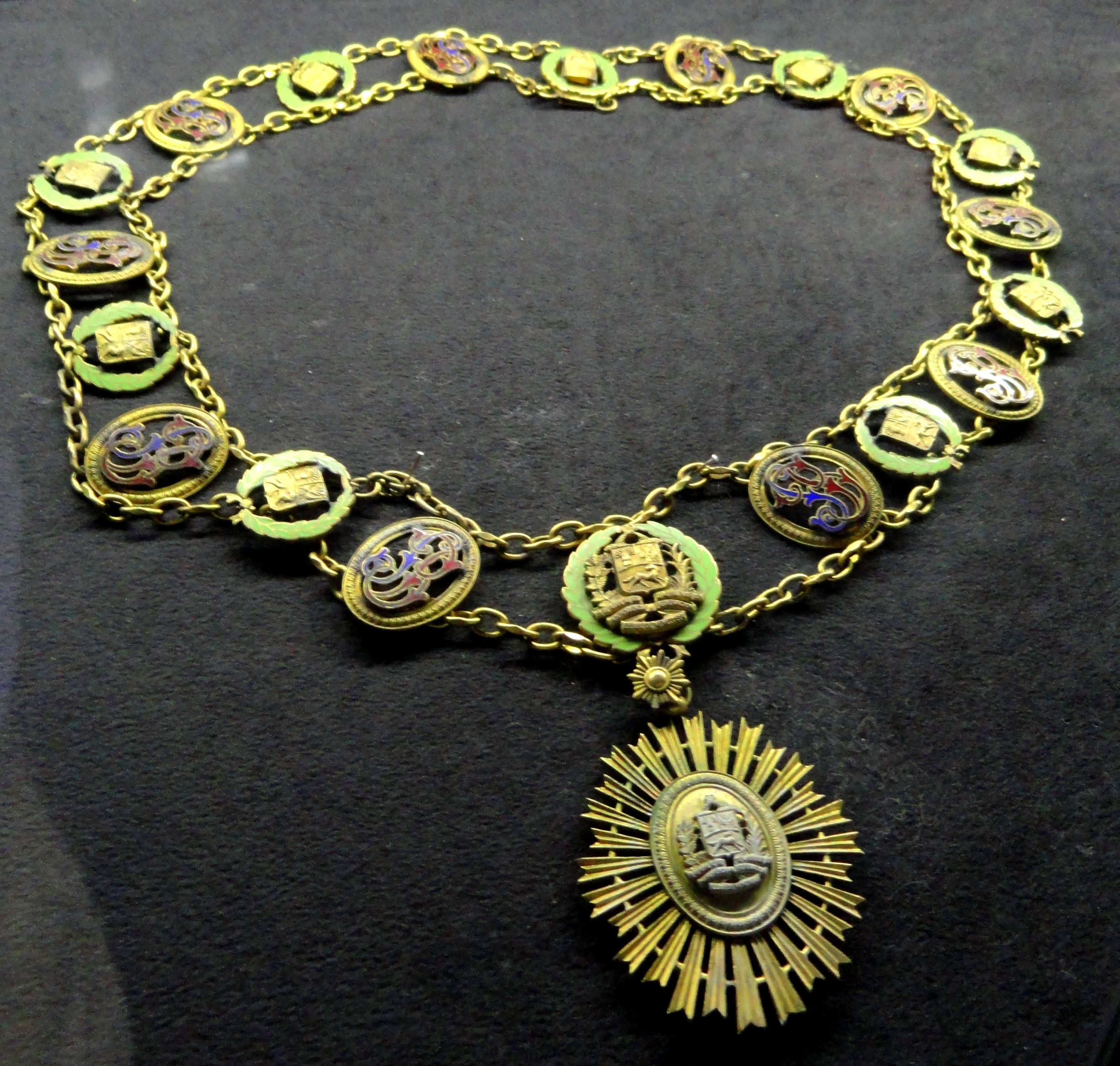 IExhibit in the Memorial JK, Brasília, Brazil.